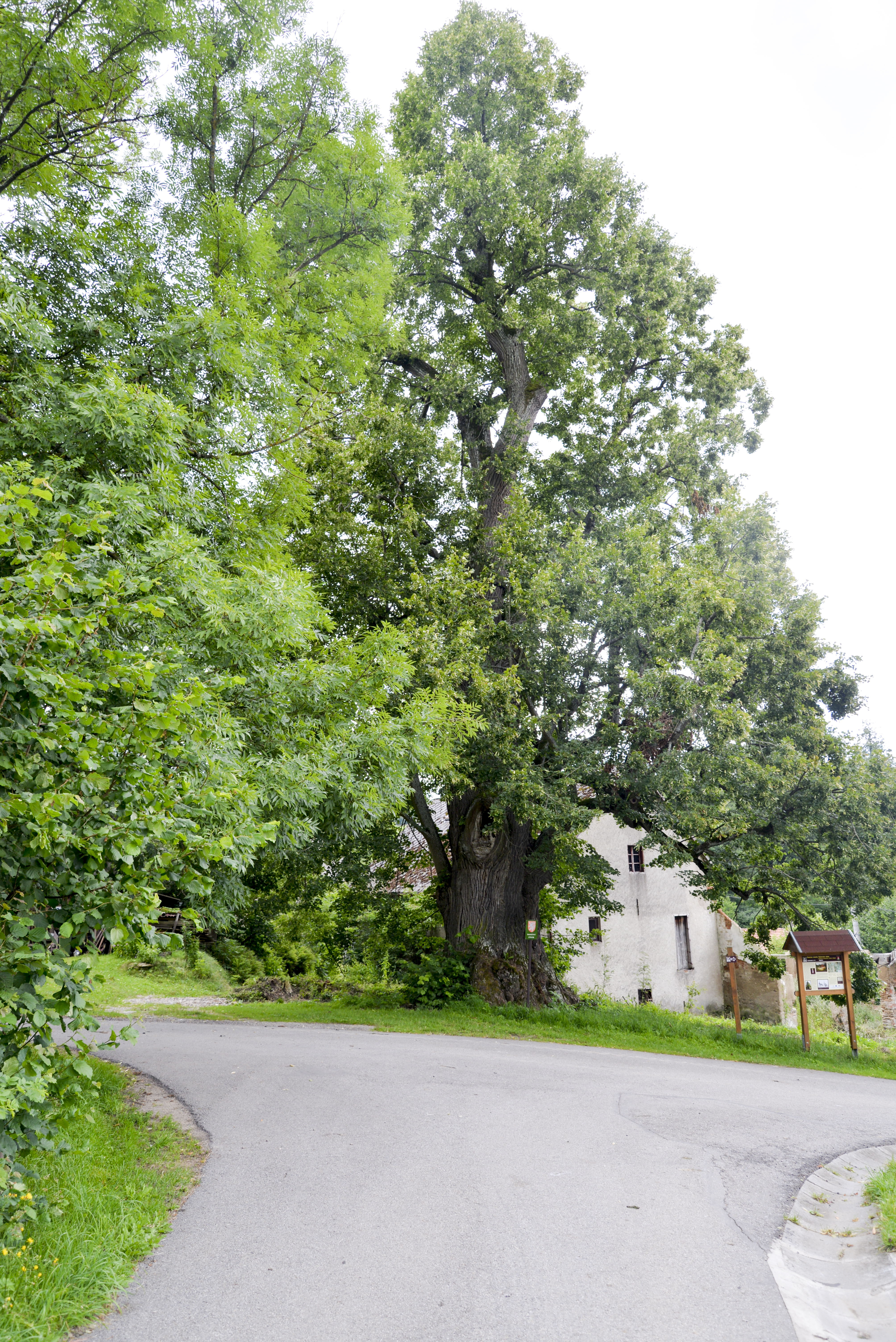 Tilia platyphyllos in Kojšice